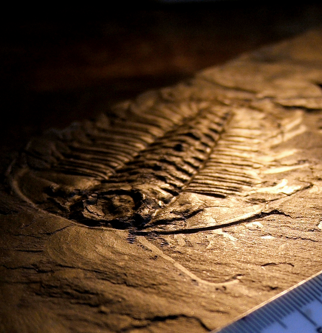 An oblique photo of a specimen belonging to Olenoides serratus. It shows the shiny carbon film that is the extremely thin remains of one of the antennae, and some of the biramous appendages. O. serratus is one of only about 20 trilobite species of which soft tissue has been preserved in some specimens. It is the only species for which cerci are known (paired unbrached terminal appendages of the pygidium, looking like antennas, but these are not shown in this photo